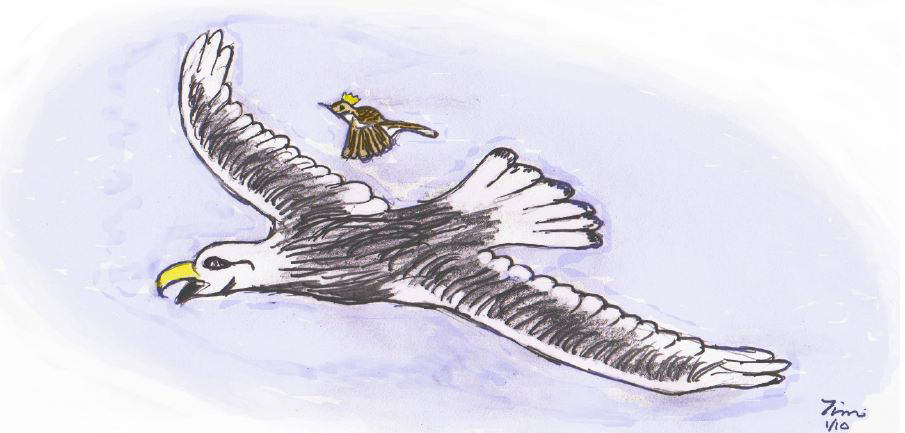 How the wren became king of the birds